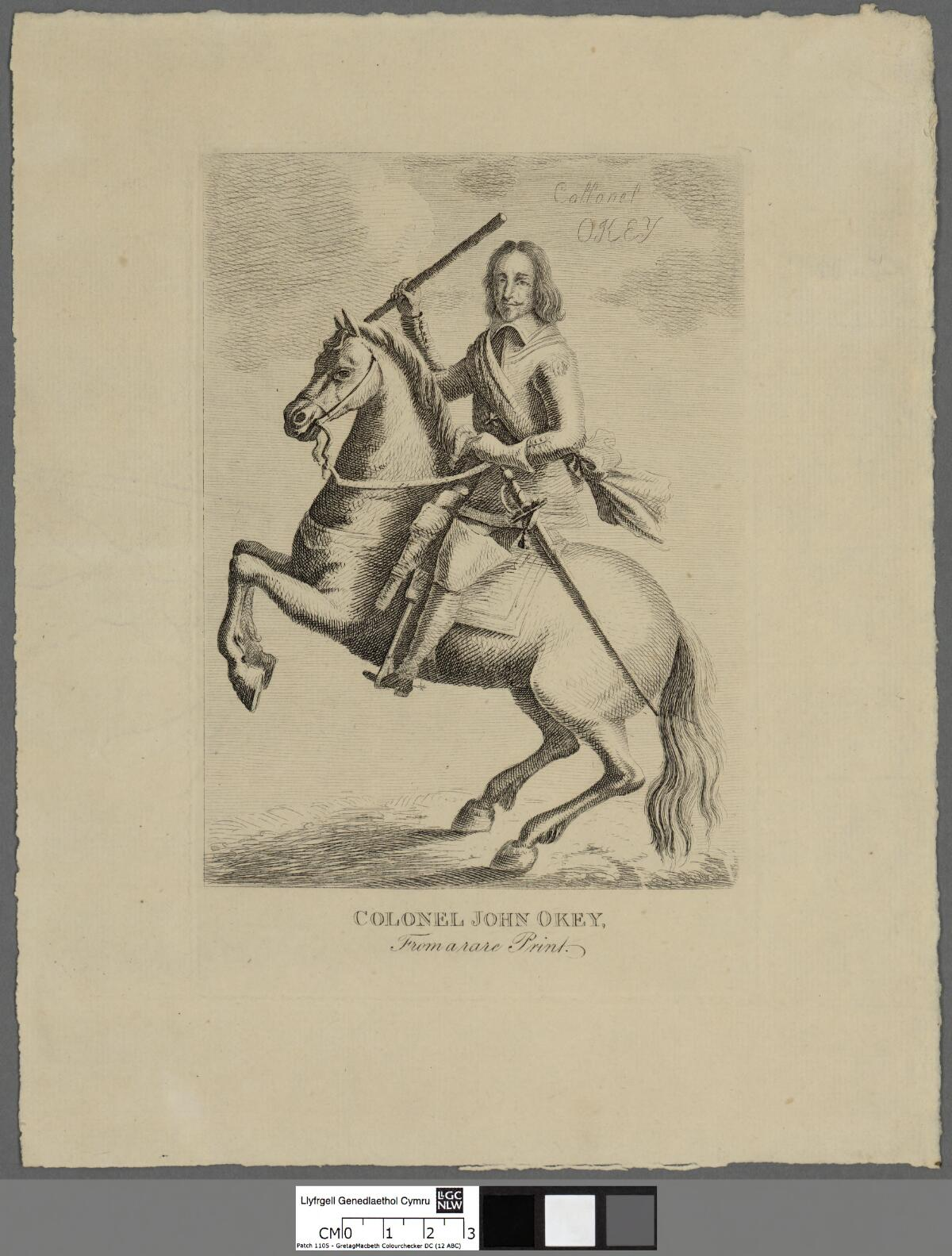 A portrait from the Welsh Portrait Collection at the National Library of Wales. Depicted person: John Okey – English politician